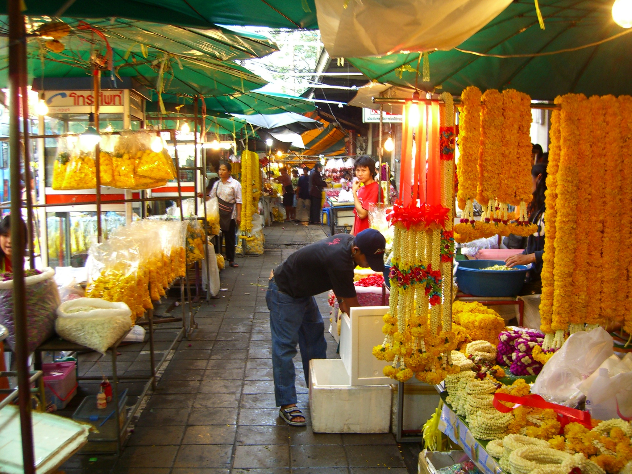 Flower market in Bangkok (presumably Pak Khlong Talat). Shows popular jasmine and magnolia garlands.